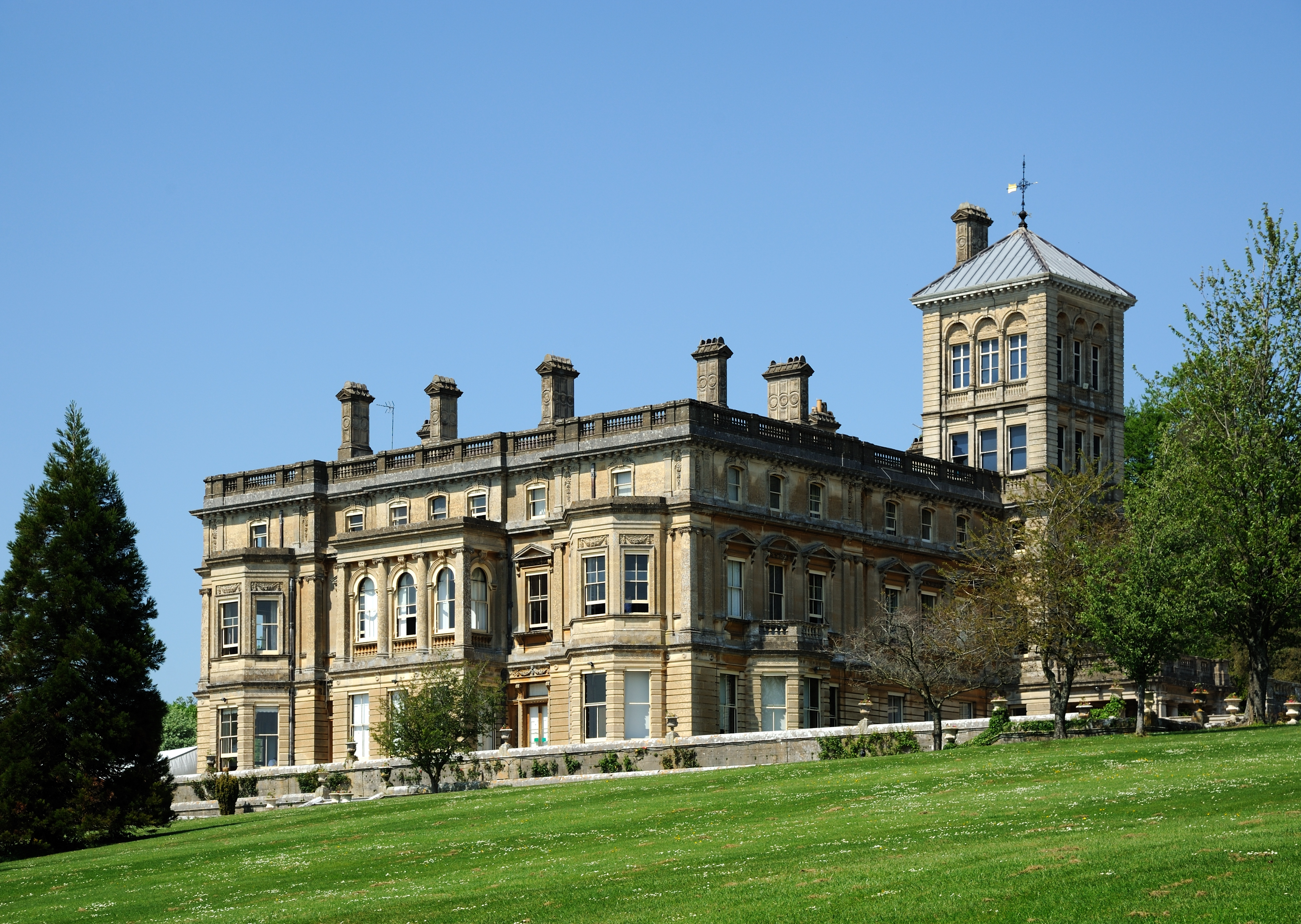 Rendcomb College is a co-educational boarding and day school for 3 to 18-year-olds, located in the village of Rendcomb five miles north of Cirencester in Gloucestershire, England.